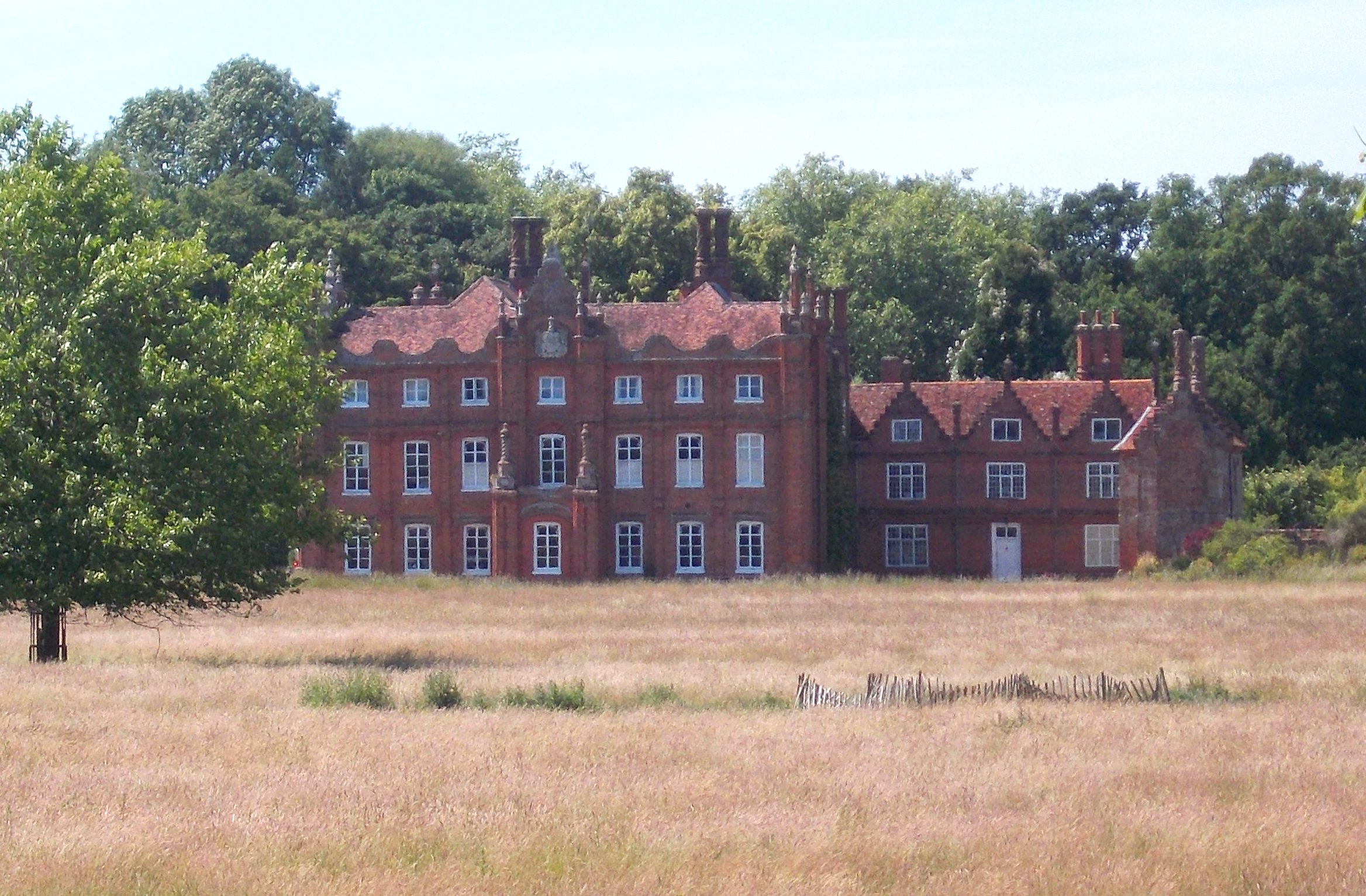 Cockfield Hall, Yoxford, Suffolk, from the east side, showing the three gables of the 16th century north wing thought to have been built by Sir Arthur Hopton (1488-1555) and with the end of the Tudor gatehouse visible far right.